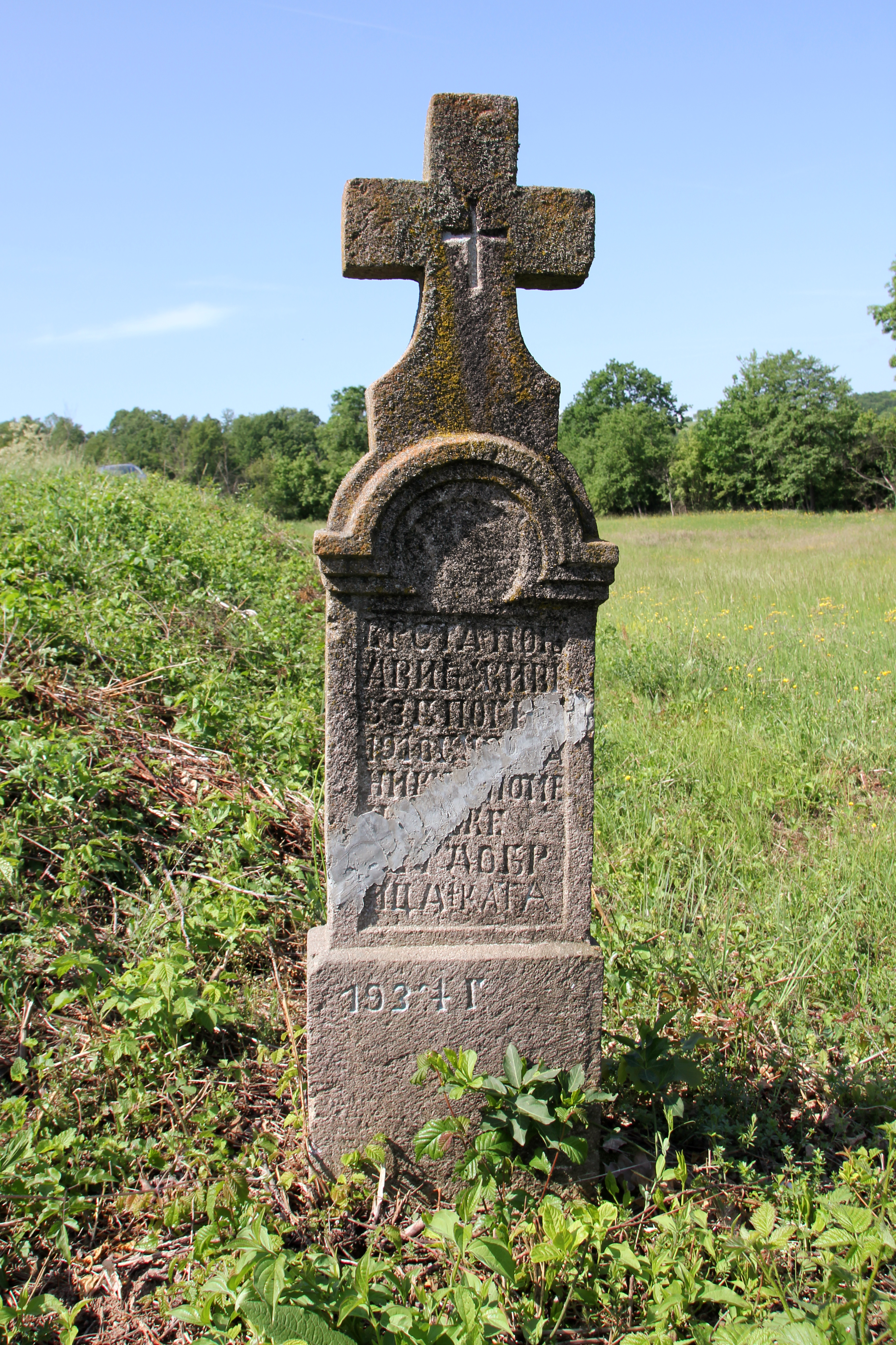 Roadside tombstone erected in memory of Krsta Ponjavic. It is located in the village of Klaticevo (the municipality of Gornji Milanovac), Serbia.